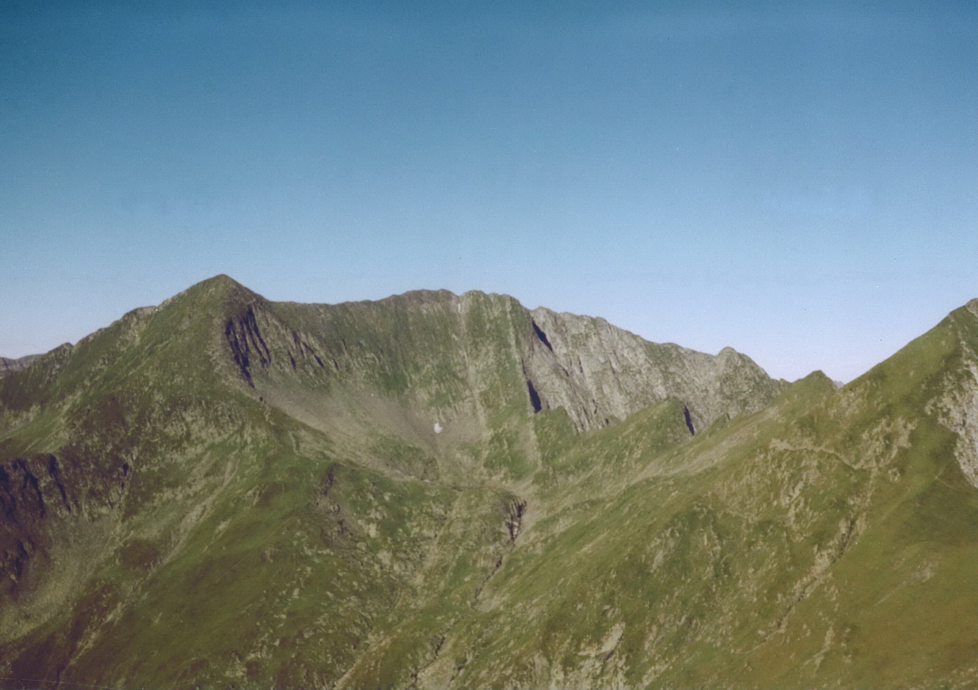 Mircii & Arpaşul Mare Peaks